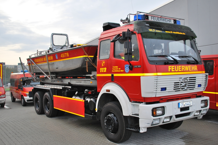 Changing loader vehicle 2 of the volunteer fire department vehicle Mühlheim. Here by default with the hitched AB multi-purpose boat (MPB)